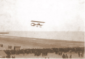 Alessandro Cagno flies his Farman II above the crowds at the Venice Lido - March 1911